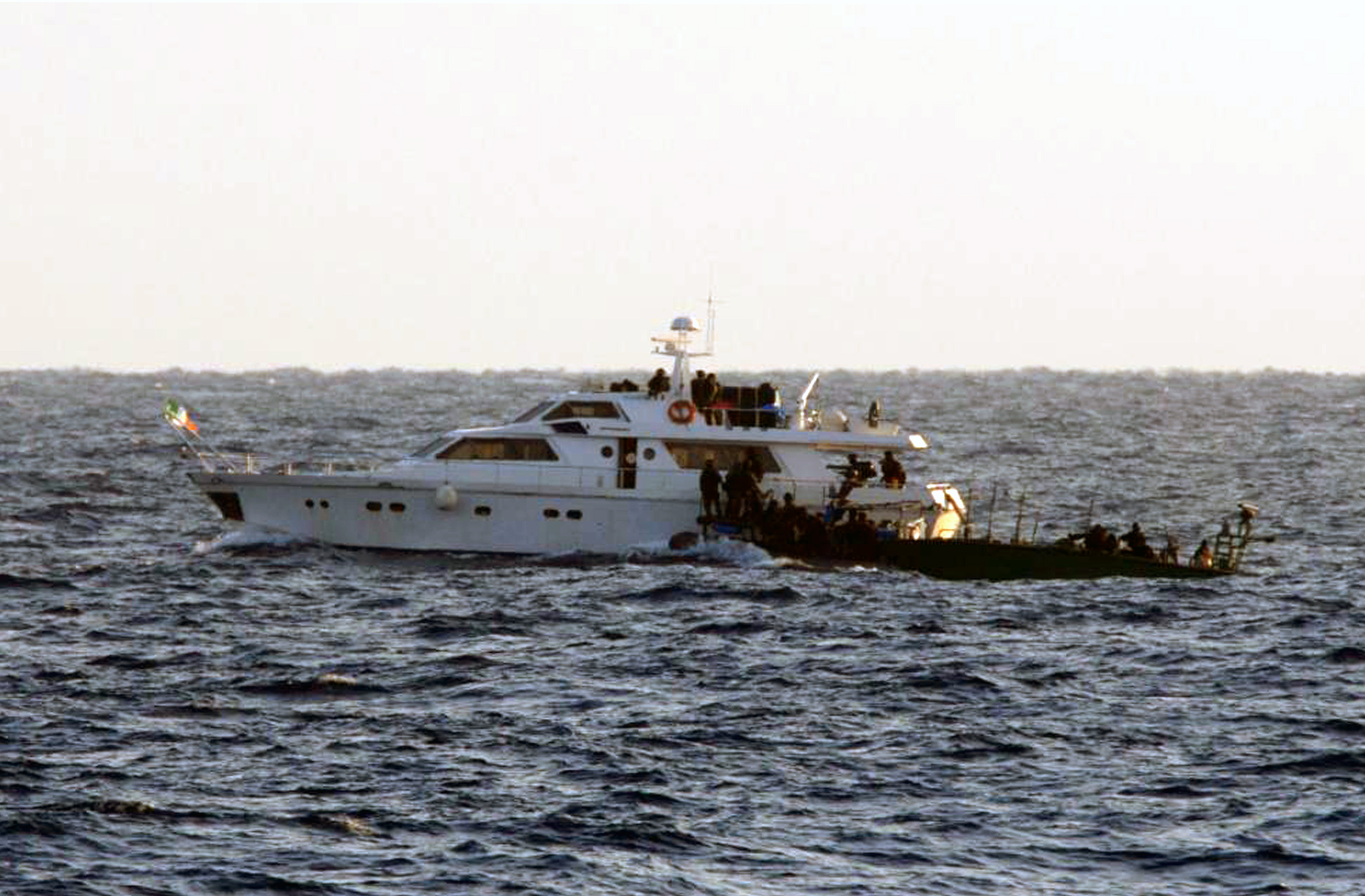 This image published by the IDF spokes person shows Israel Navy soldiers boarding the irish vessel "Saoirse" which was together with canadian vessel "Tahrir" en-route to the Gaza Strip, attempting to break the maritime security blockade.